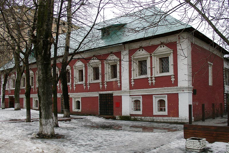 17th century "Red Chambers in Ostozhenka", Moscow, Prechistenskye Vorota Square. Former Golovin, later Golitsyn family property.